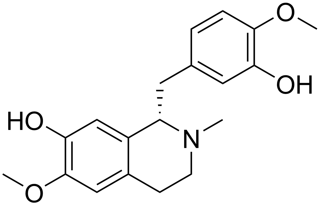 chemical structure of Reticuline